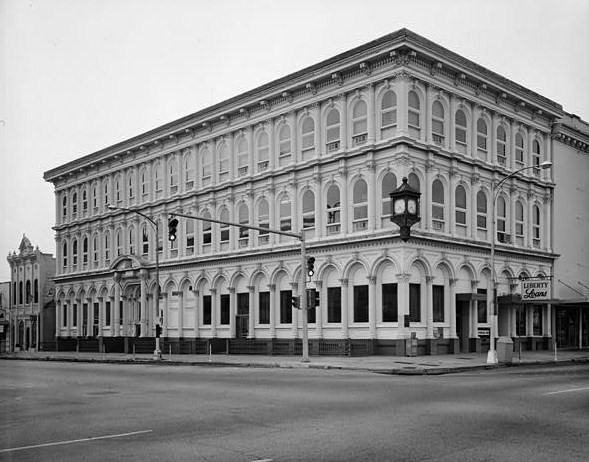 Bank of Columbus, 1048 Broadway, Columbus (Muscogee County, Georgia) Cropped This file comes from the Historic American Buildings Survey (HABS), Historic American Engineering Record (HAER) or Historic American Landscapes Survey (HALS). These are programs of the National Park Service established for the purpose of documenting historic places. Records consist of measured drawings, archival photographs, and written reports. When reusing please credit: Library of Congress, Prints & Photographs Division, GA,108-COLM,28-1 This tag does not indicate the copyright status of the attached work. A normal copyright tag is still required. See Commons:Licensing for more information. English | +/− This work is in the public domain in the United States because it is a work prepared by an officer or employee of the United States Government as part of that person’s official duties under the terms of Title 17, Chapter 1, Section 105 of the US Code. See Copyright. Note: This only applies to original works of the Federal Government and not to the work of any individual U.S. state, territory, commonwealth, county, municipality, or any other subdivision. This template also does not apply to postage stamp designs published by the United States Postal Service since 1978. (See § 313.6(C)(1) of Compendium of U.S. Copyright Office Practices). It also does not apply to certain US coins; see The US Mint Terms of Use. This file has been identified as being free of known restrictions under copyright law, including all related and neighboring rights. Object location32° 27′ 52″ N, 84° 59′ 36″ W